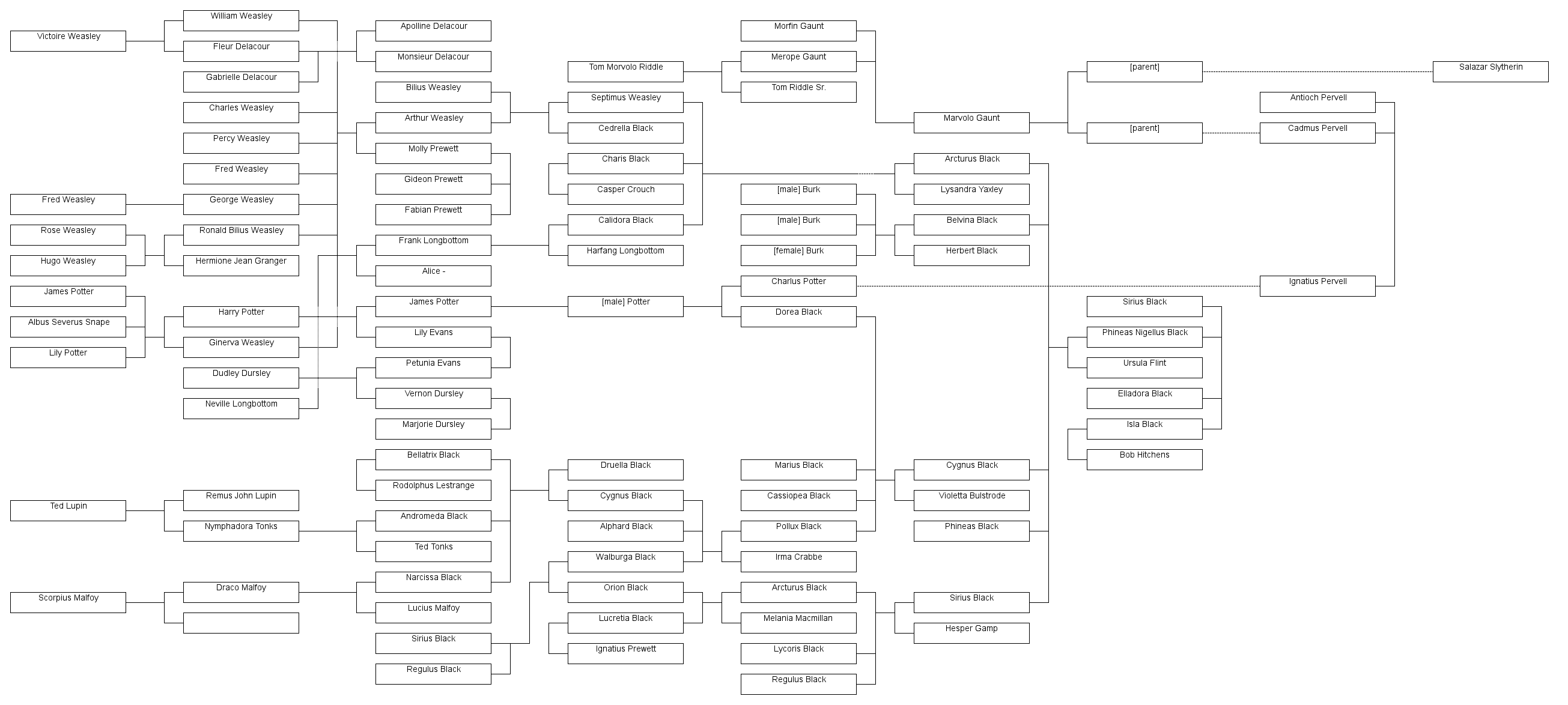 A Harry Potter family tree.